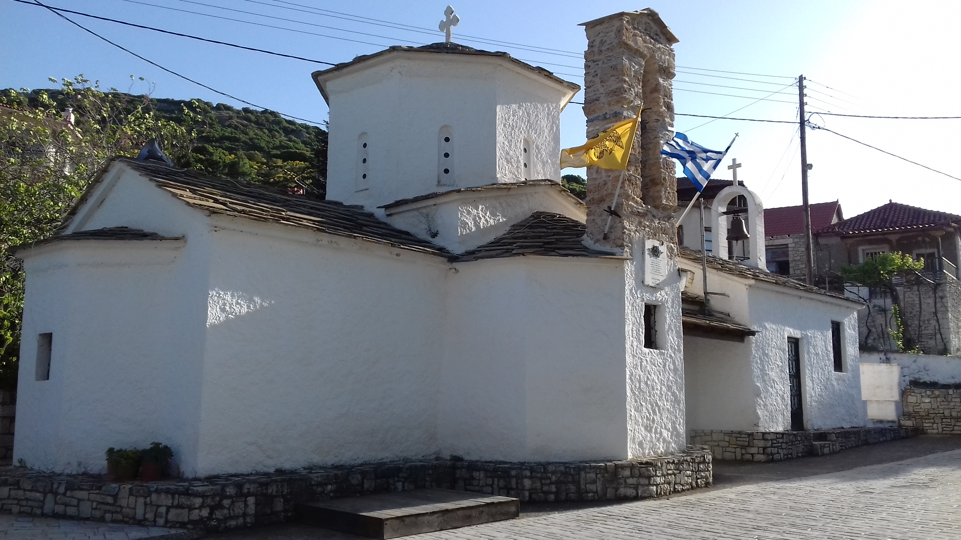 Saint George churvh in Agios Ioannis Arcadia Greece